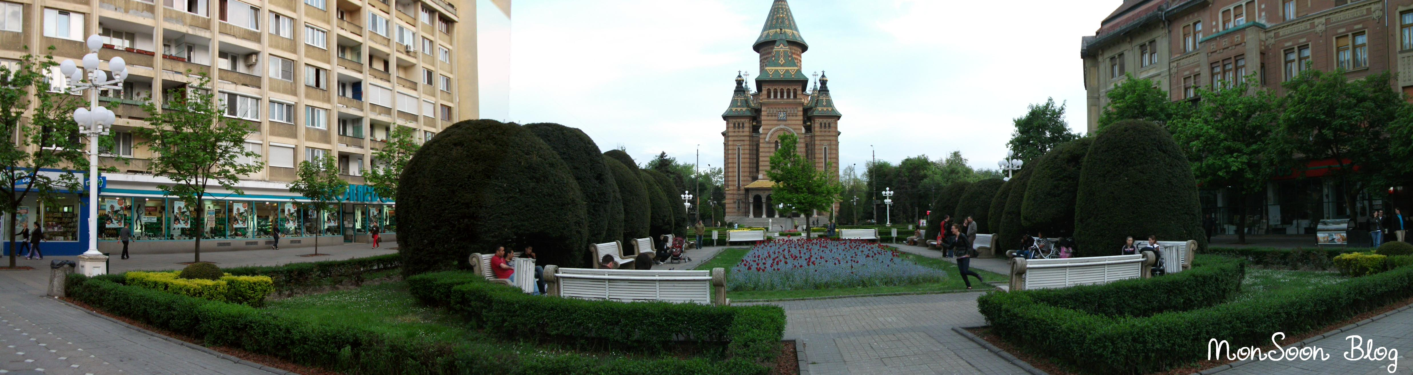 Timişoara Orthodox Cathedral Landscape.